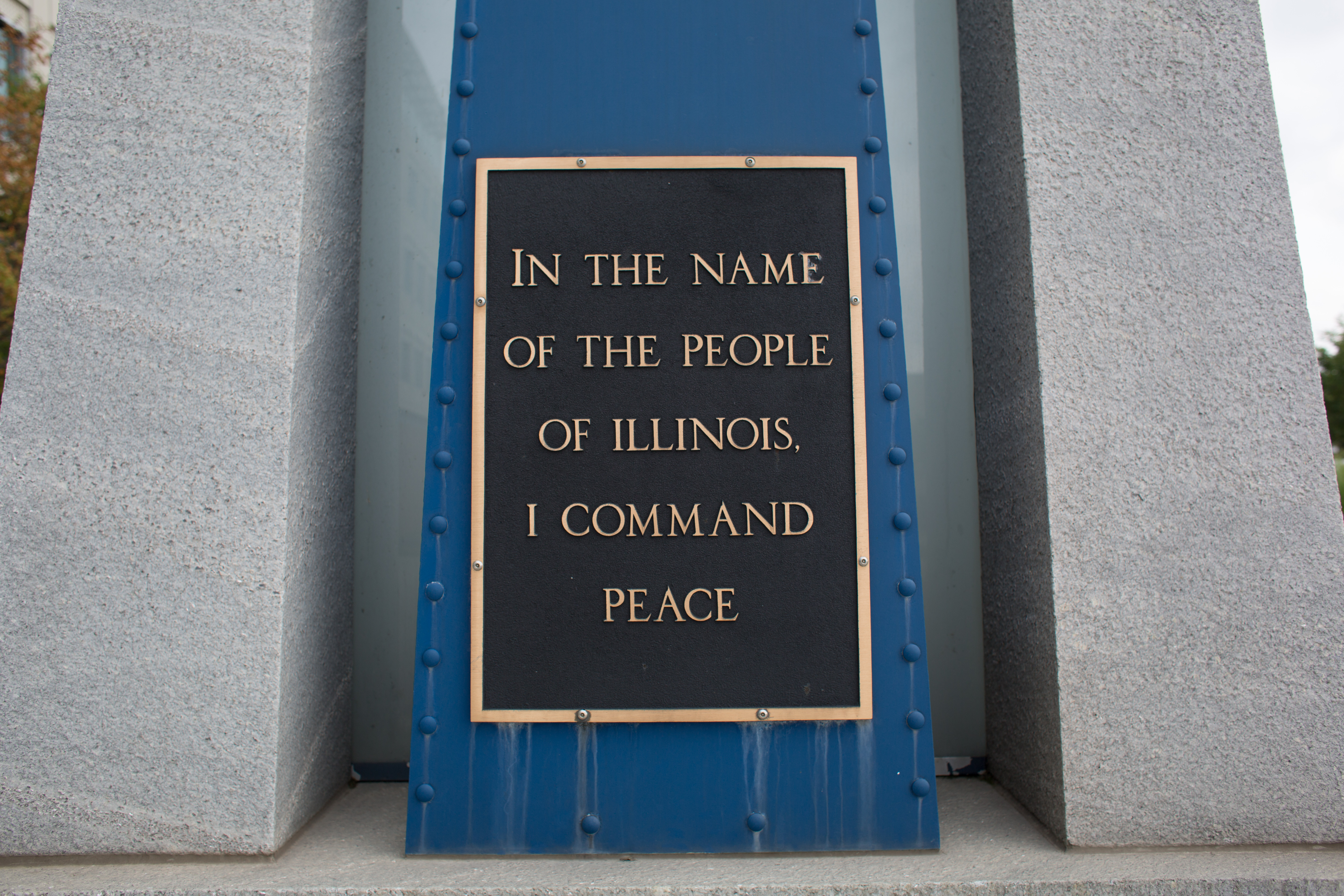 Haymarket Monument Bronzeville, Chicago 2015